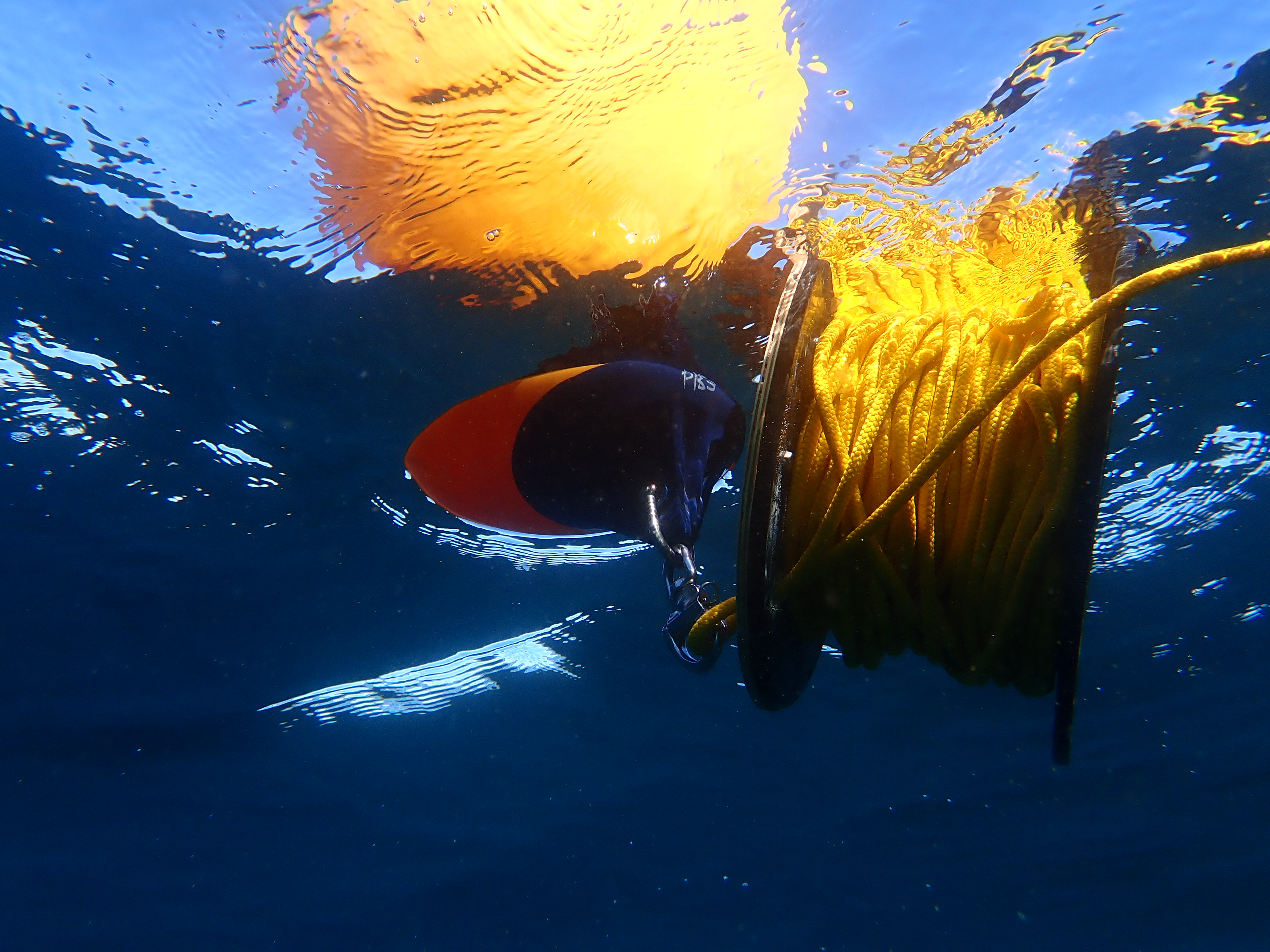 View from below of buoy clipped to reel of diving shotline deployed in fairly shallow water (about 20m). Most of the 100m line is still on the reel.